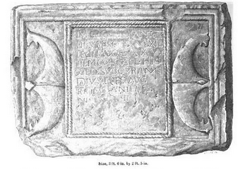 Dedication to an unknown emperor by the Second Legion Augusta and the Twentieth Legion Valeria Victrix, also the First Aelian Cohort of Spaniards, found before 1794 in Netherby (GB), now in Tullie House Museum.